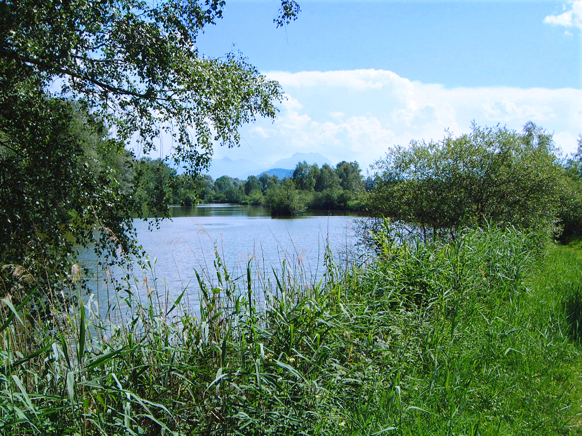 protected nature area